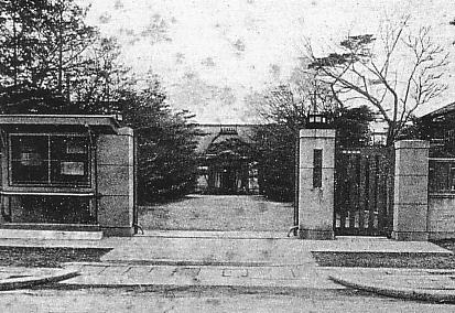 Administrative Court of Japanese Empire